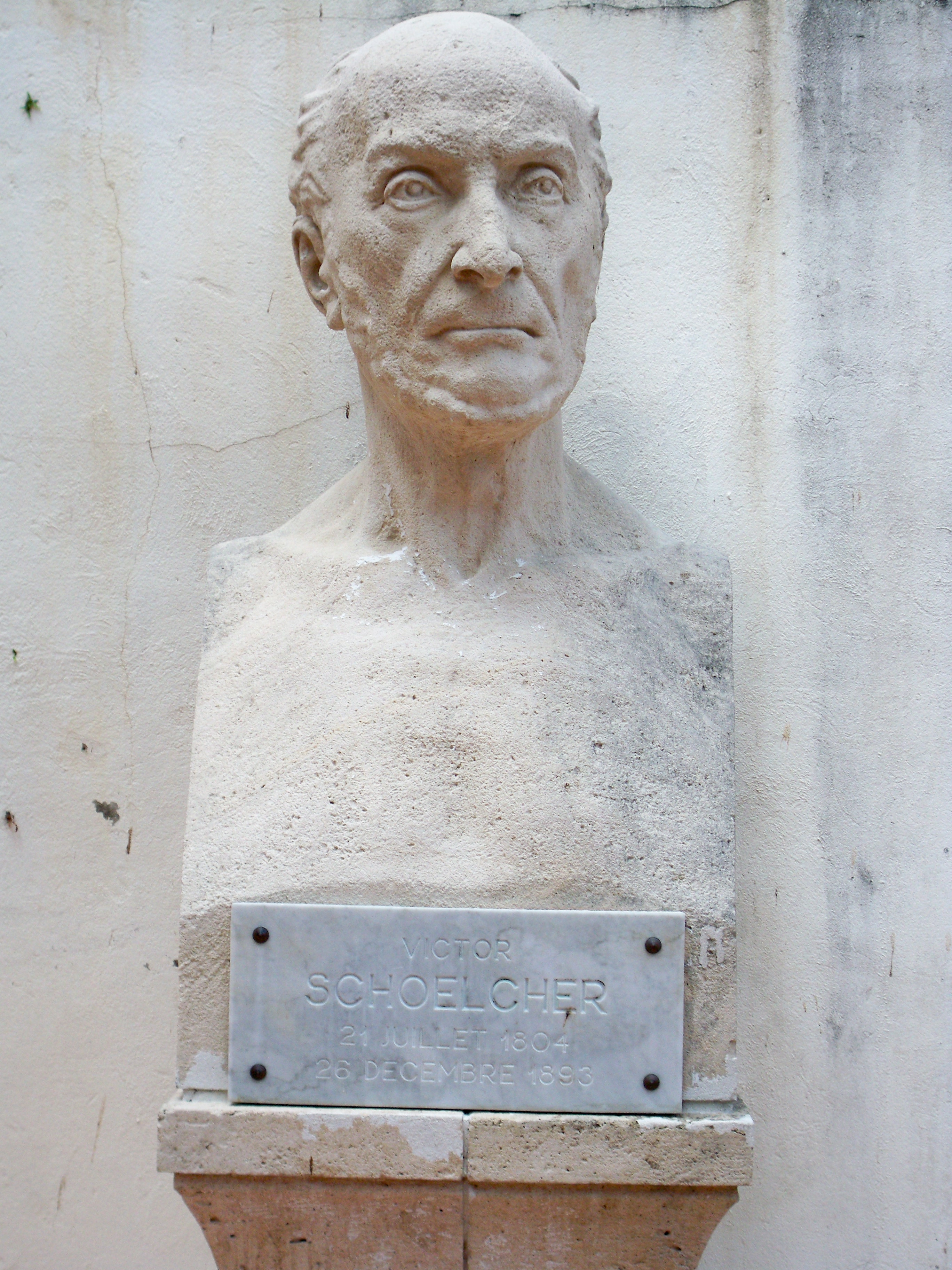 Bust of Victor Schœlcher, garden of the Schœlcher Museum, Pointe-à-Pitre, Guadeloupe